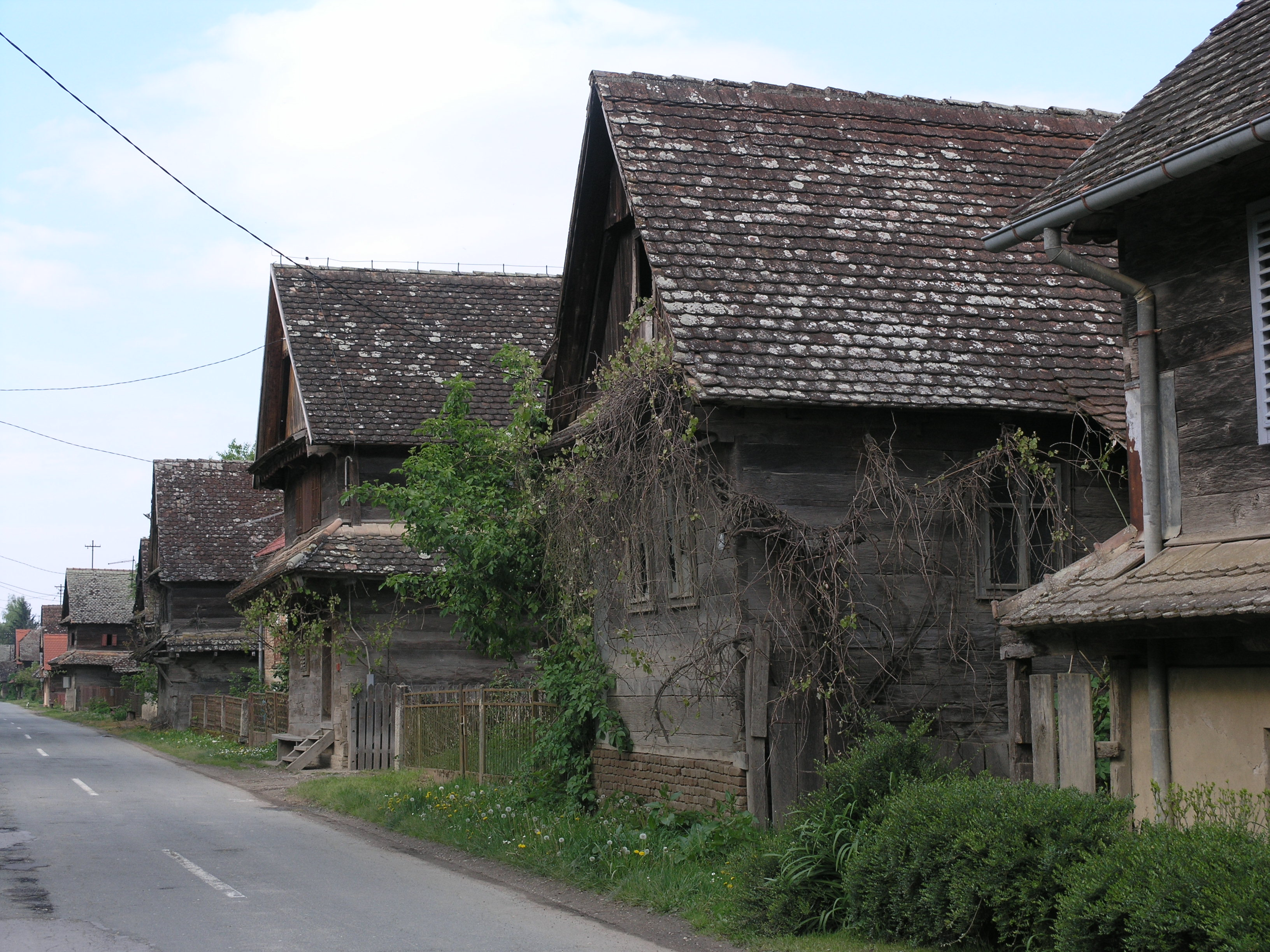 Krapje Straßenzug